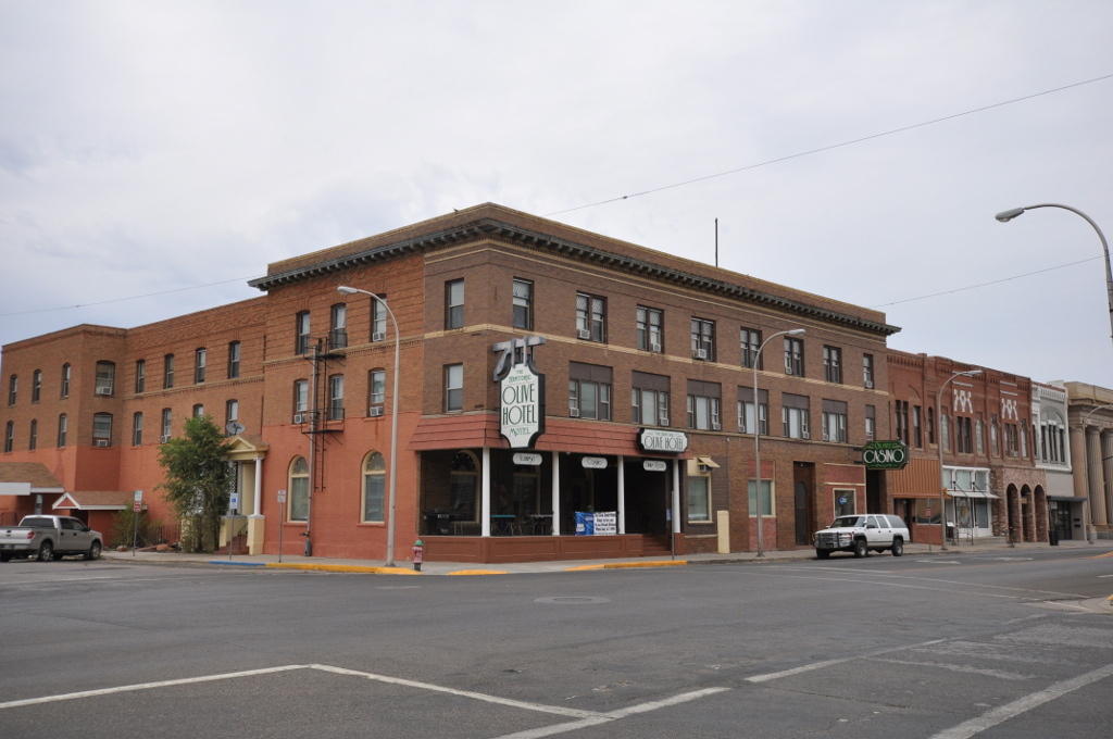 Olive Hotel, Miles City, Montana.